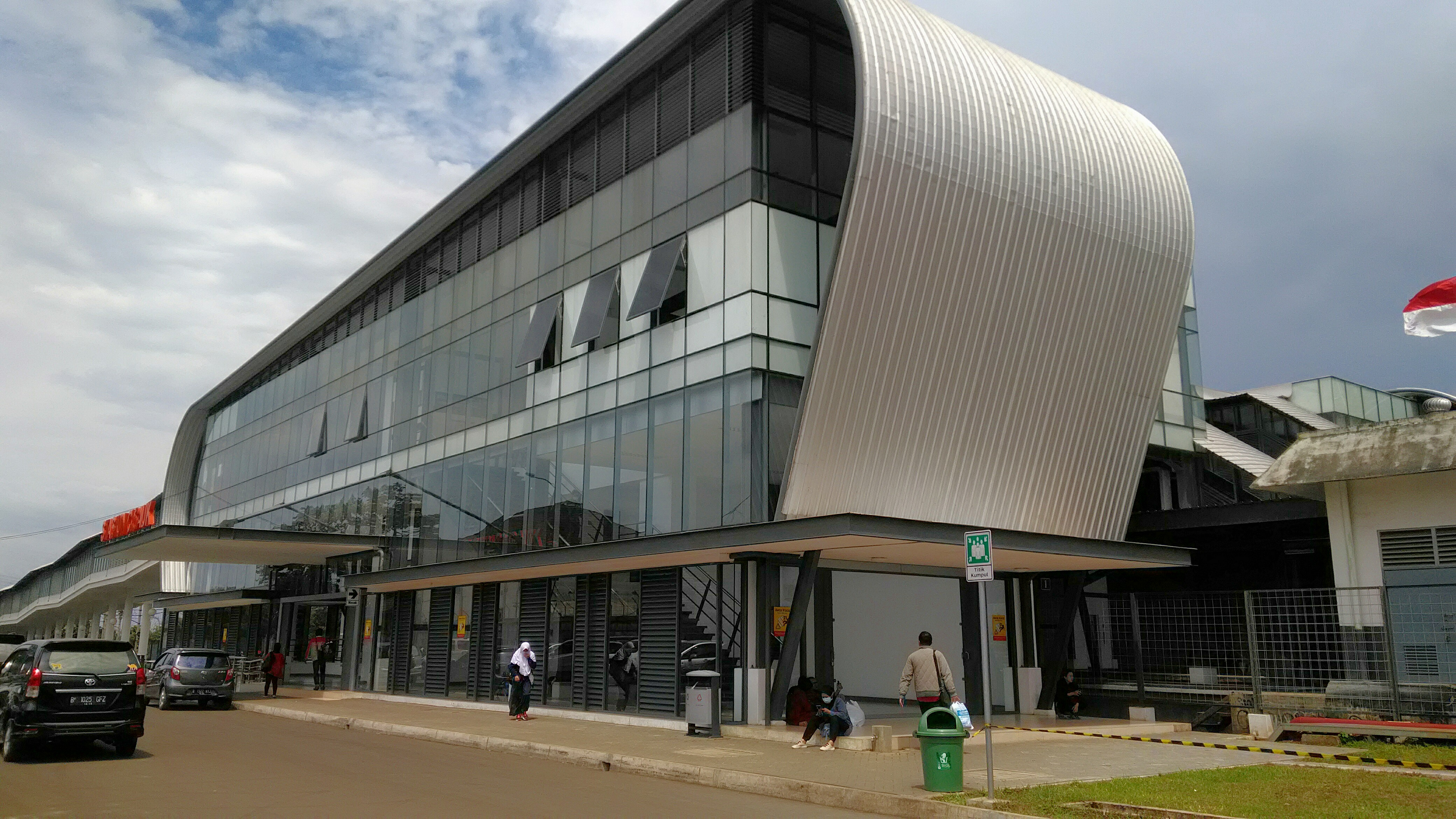 An Outside of New Cisauk Station 2019